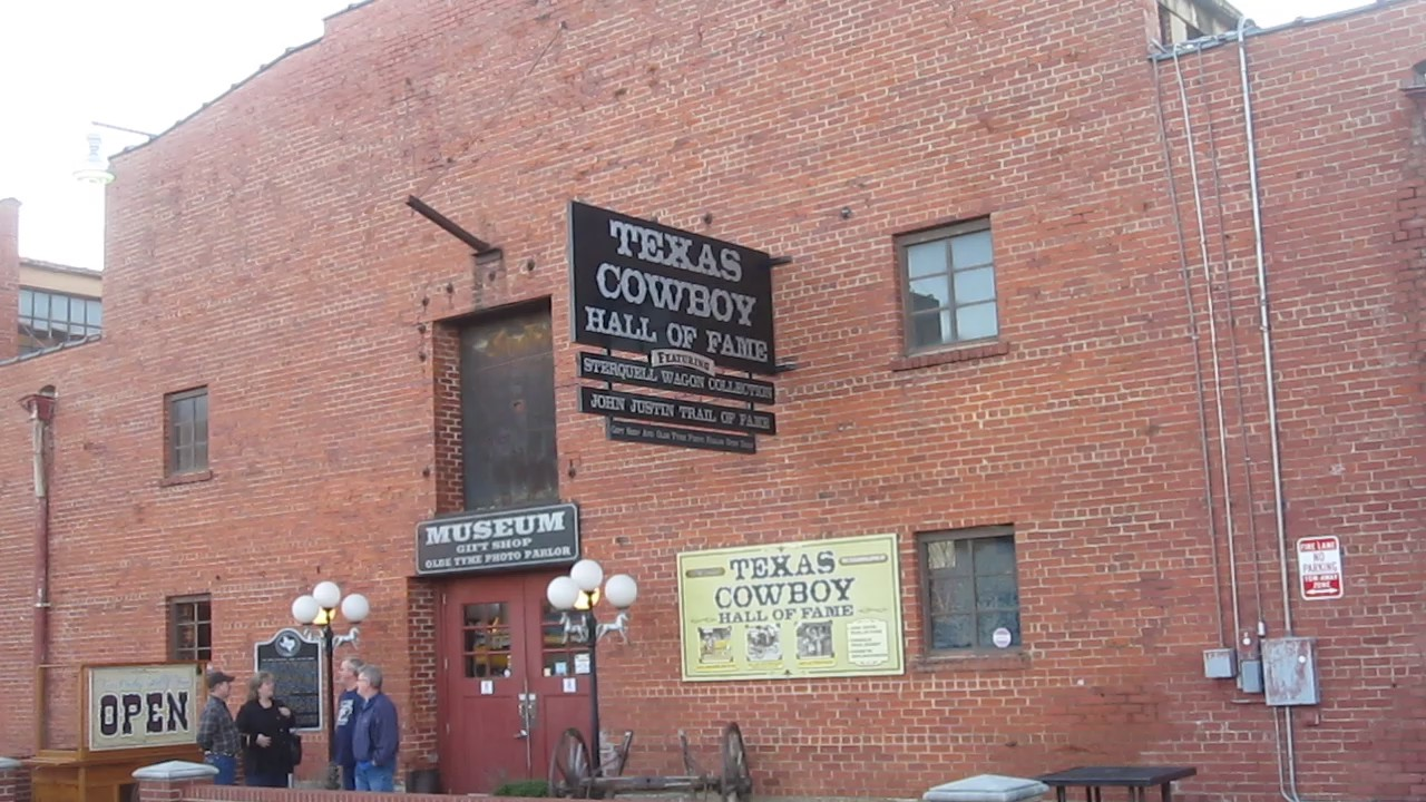 I took photo with Canon camera at Texas Cowboy Hall of Fame in Fort Worth Stockyards.